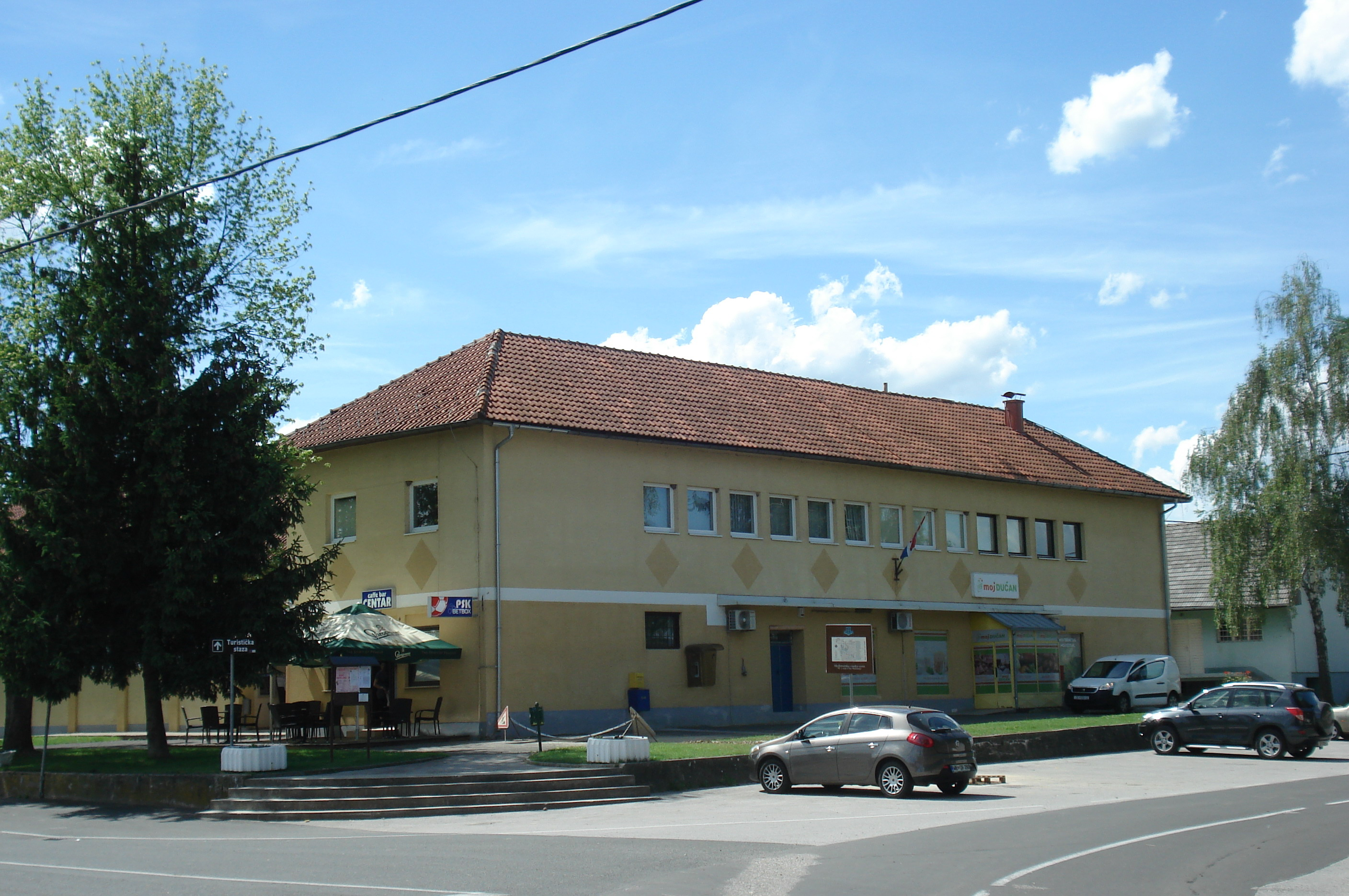 Gornji Mihaljevec, Medjimurje County, Croatia - Municipal building